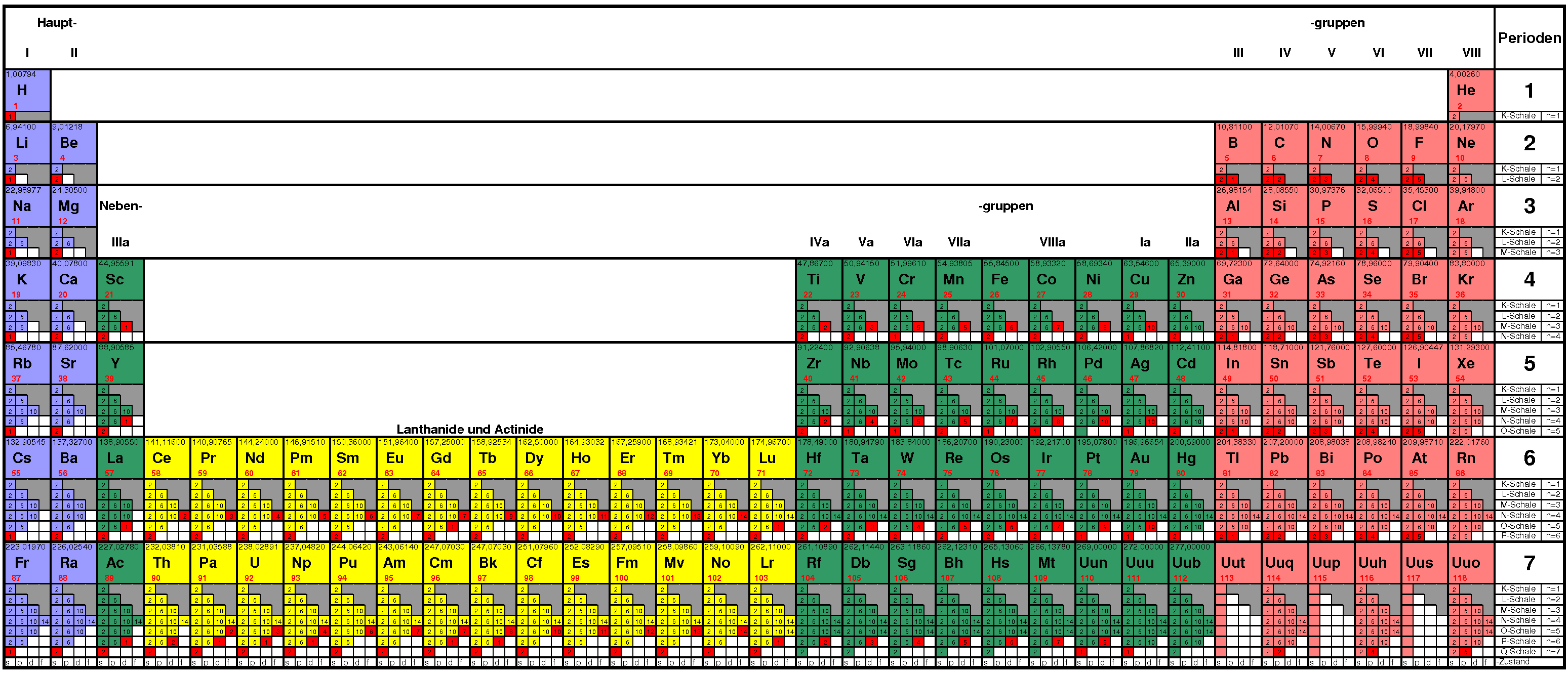 Detailed Periodic table with the complet electron configuration of each element